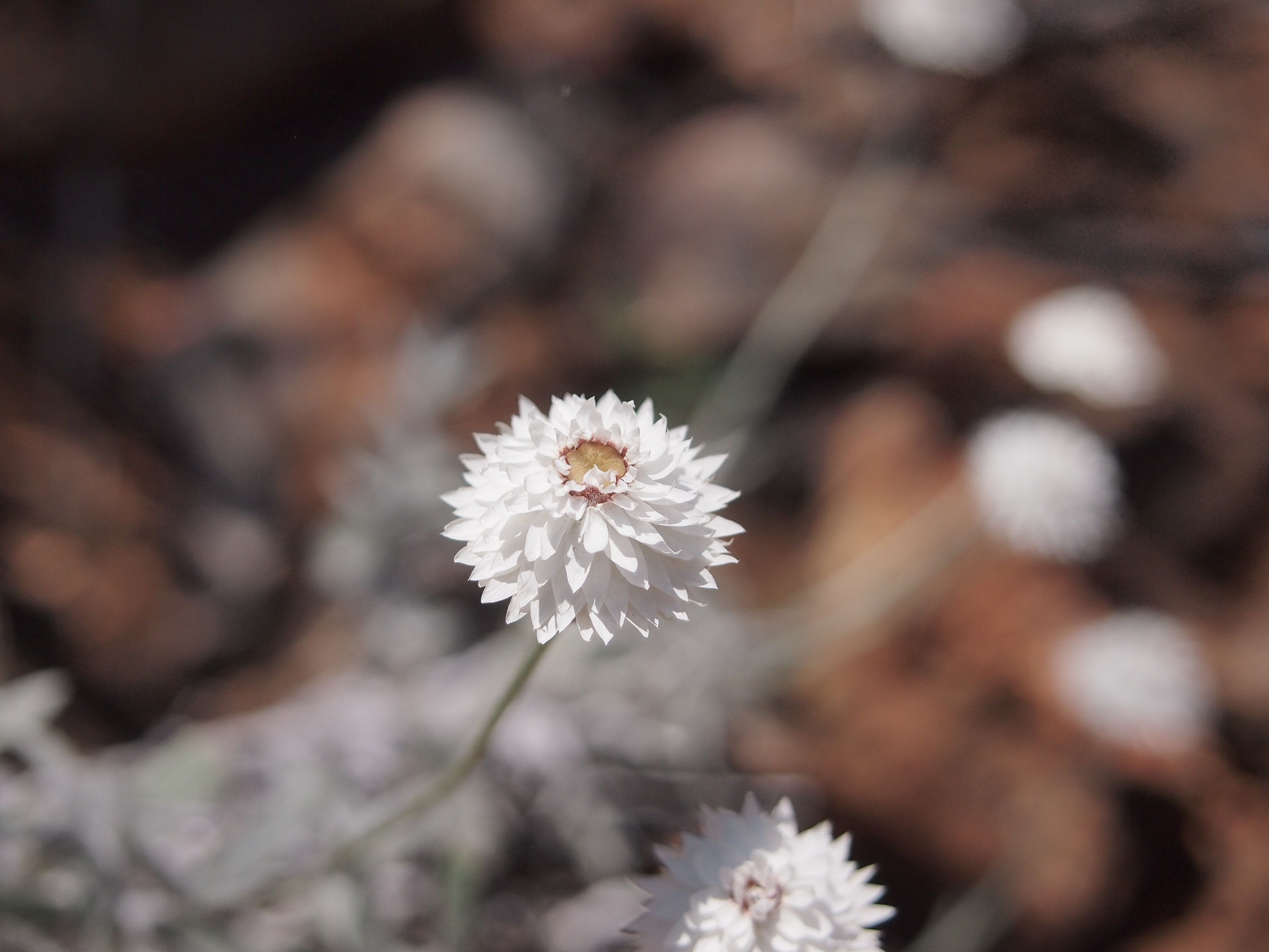 Anemocarpa saxatilis flower